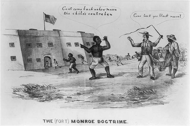 Cartoon of Fort Monroe Virginia depicting slaves rushing to the Union held fort for escape during the American Civil War